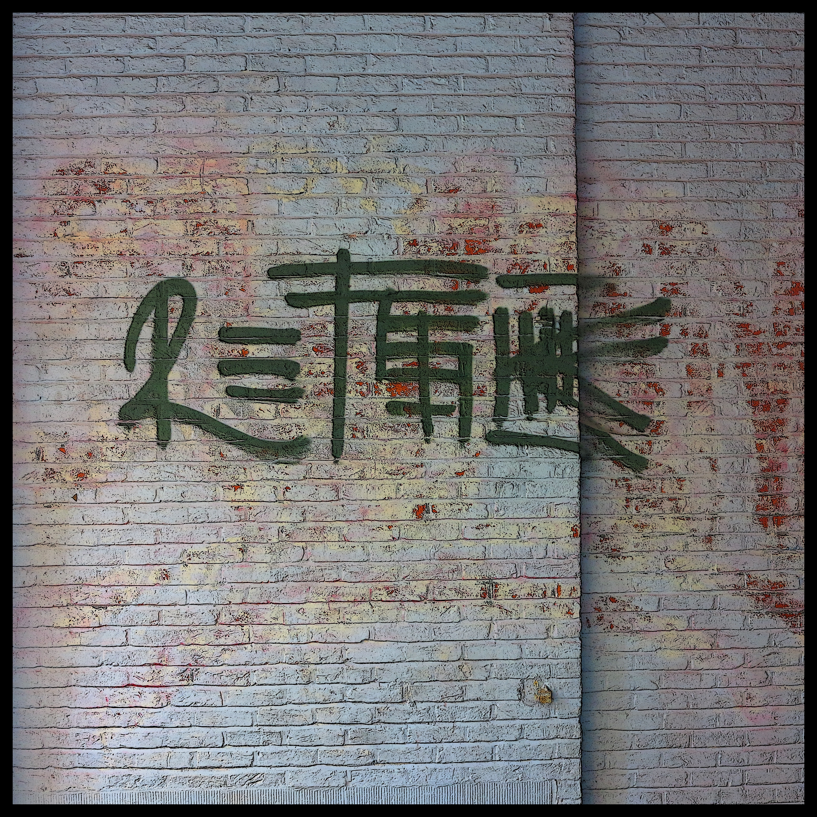 Rethinking with a Hint of Red